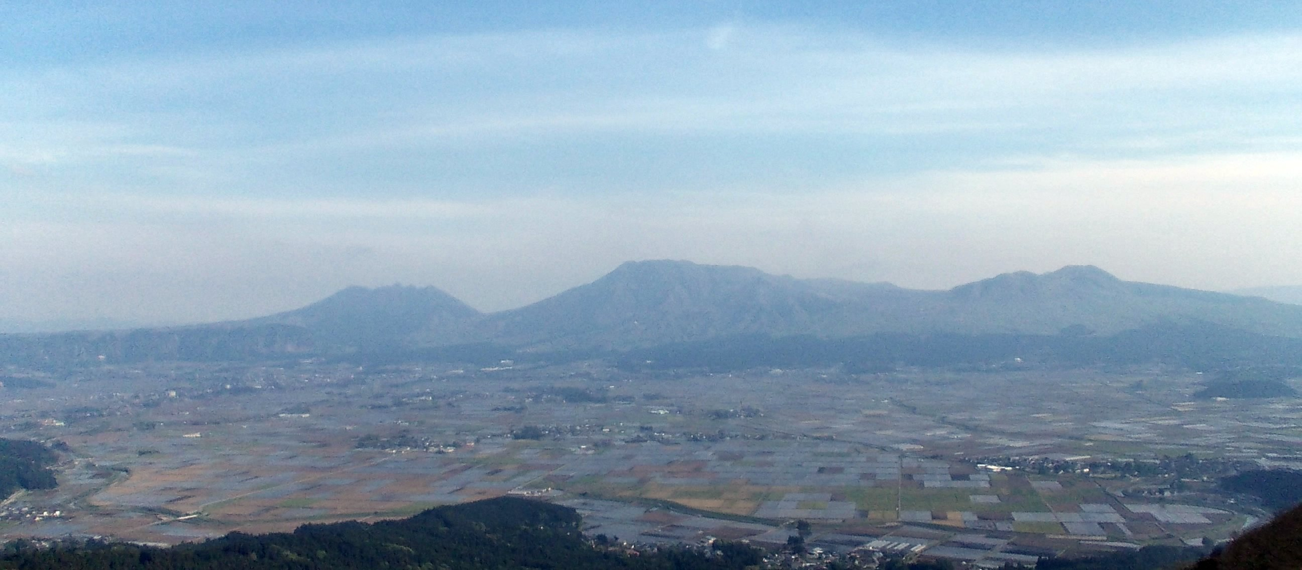 Panorama view of the five mountains of Aso from Mount Daikanbo, Aso, Kumamoto, Japan